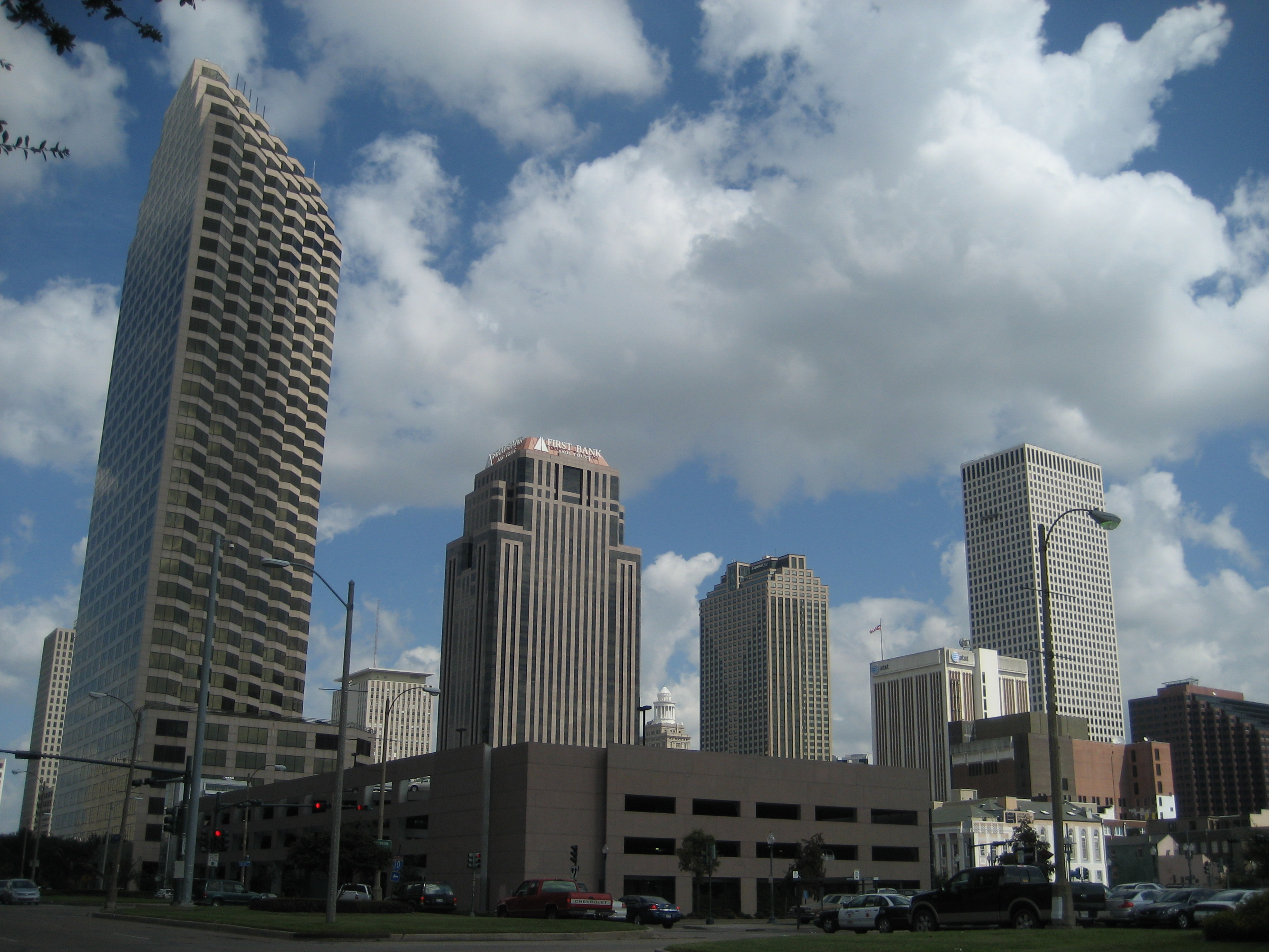 New Orleans Central Business District; view of high rises from Loyola Avenue.